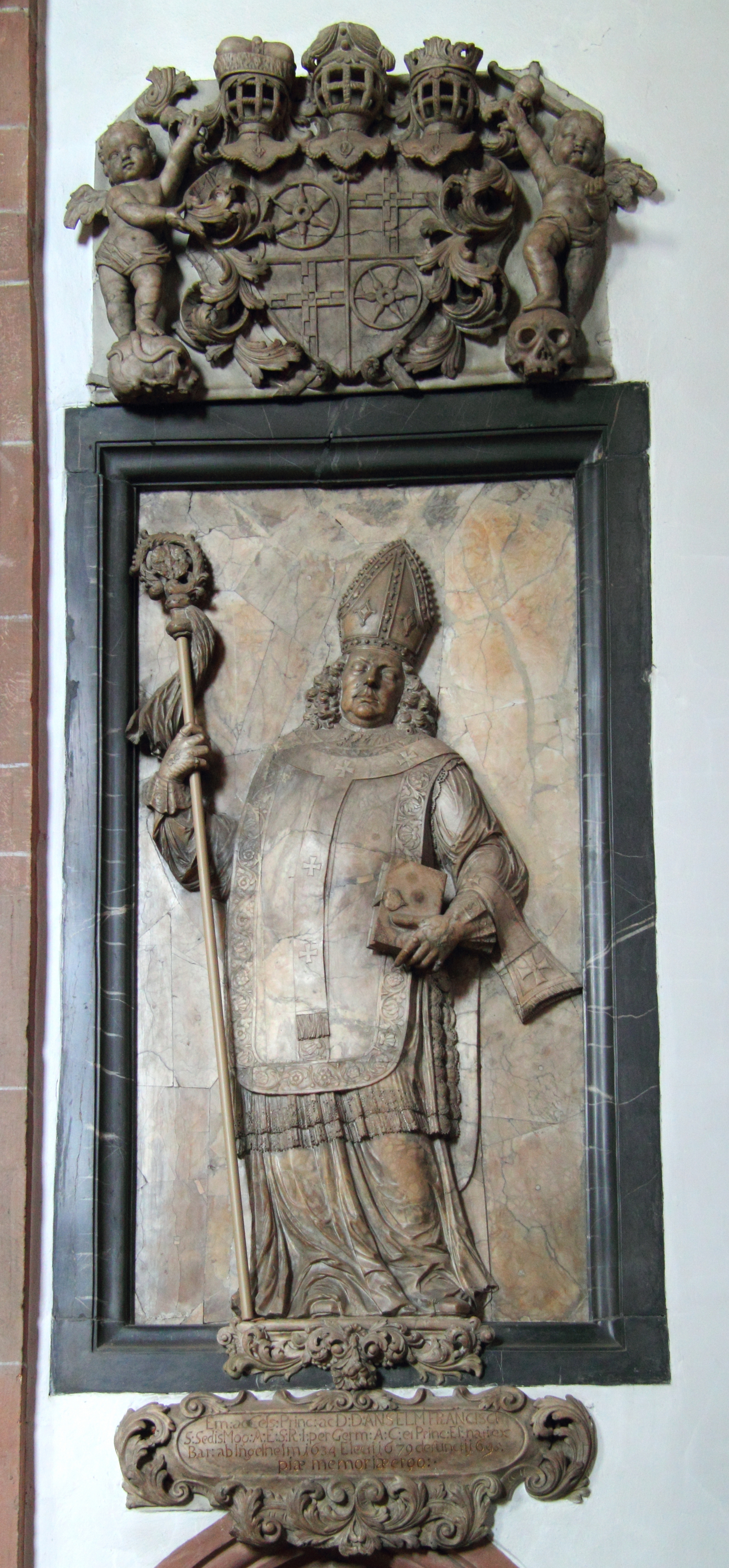 Aschaffenburg, Germany, epitaph in the St. Peter and Alexander collegiate church; sculpture by Johann Wolfgang Frölicher from 1695